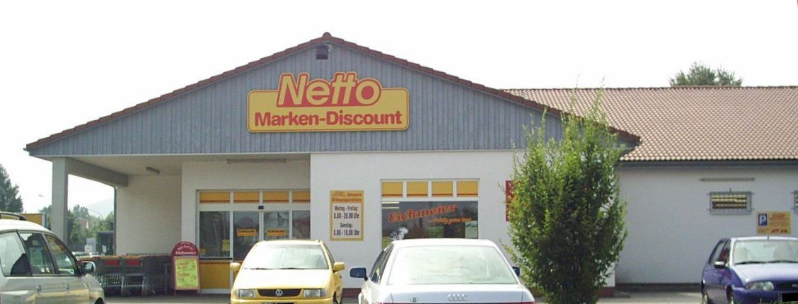 Netto Marken-Discount (supermarket), Horn-Bad Meinberg, Germany check usage